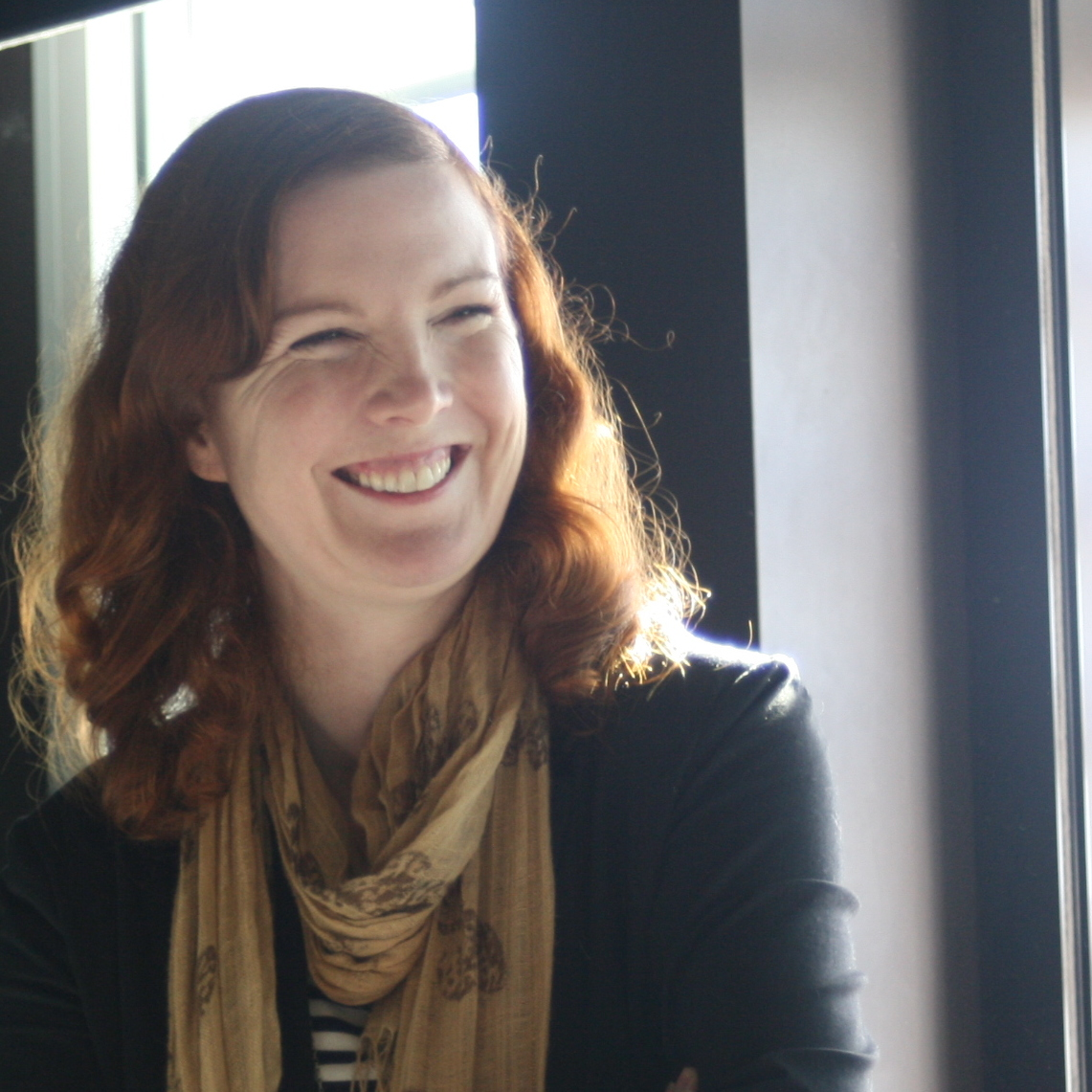 Associate Professor Kate Crawford, University of New South Wales